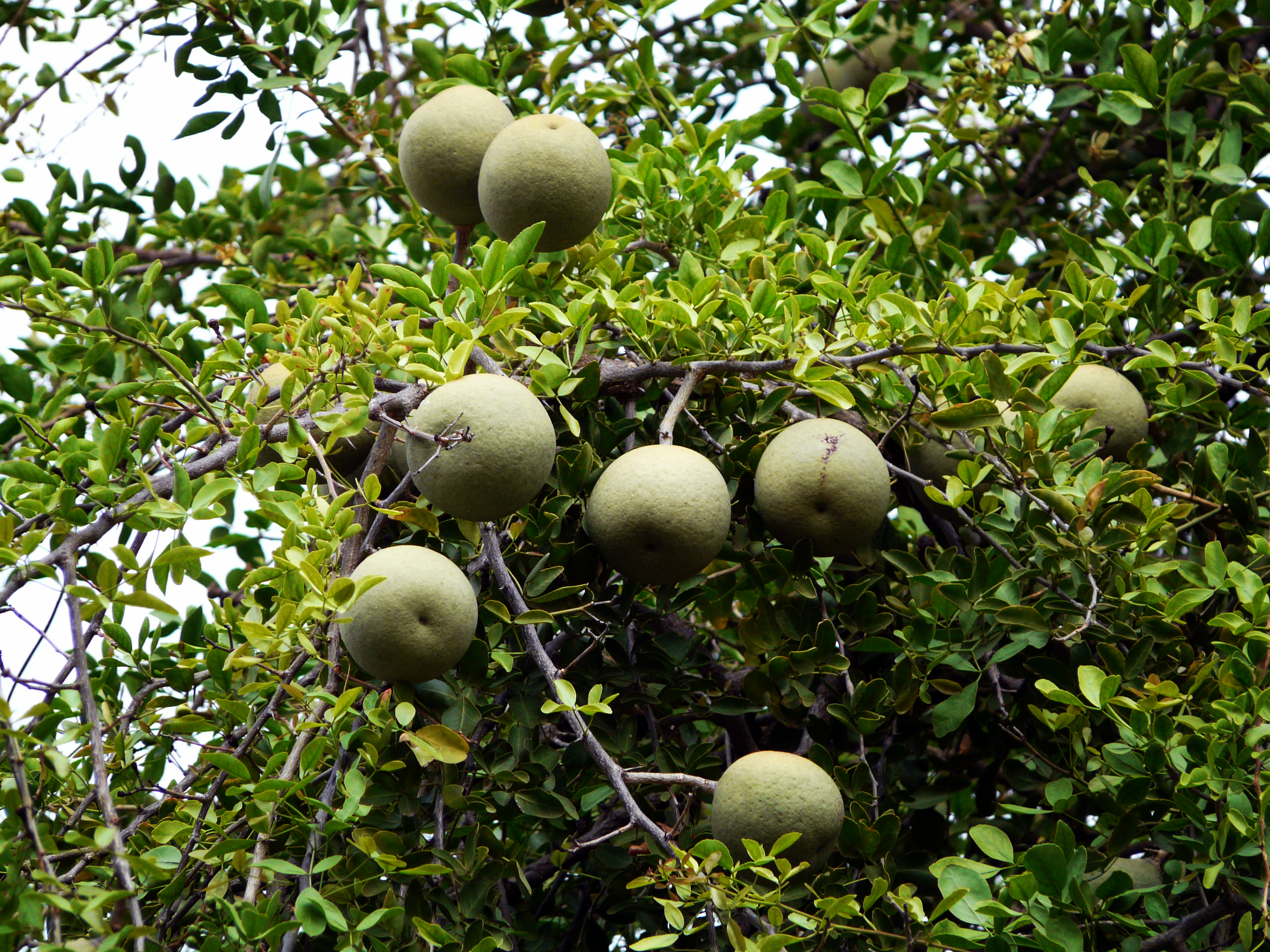 Feronia elephantum in Panna TR